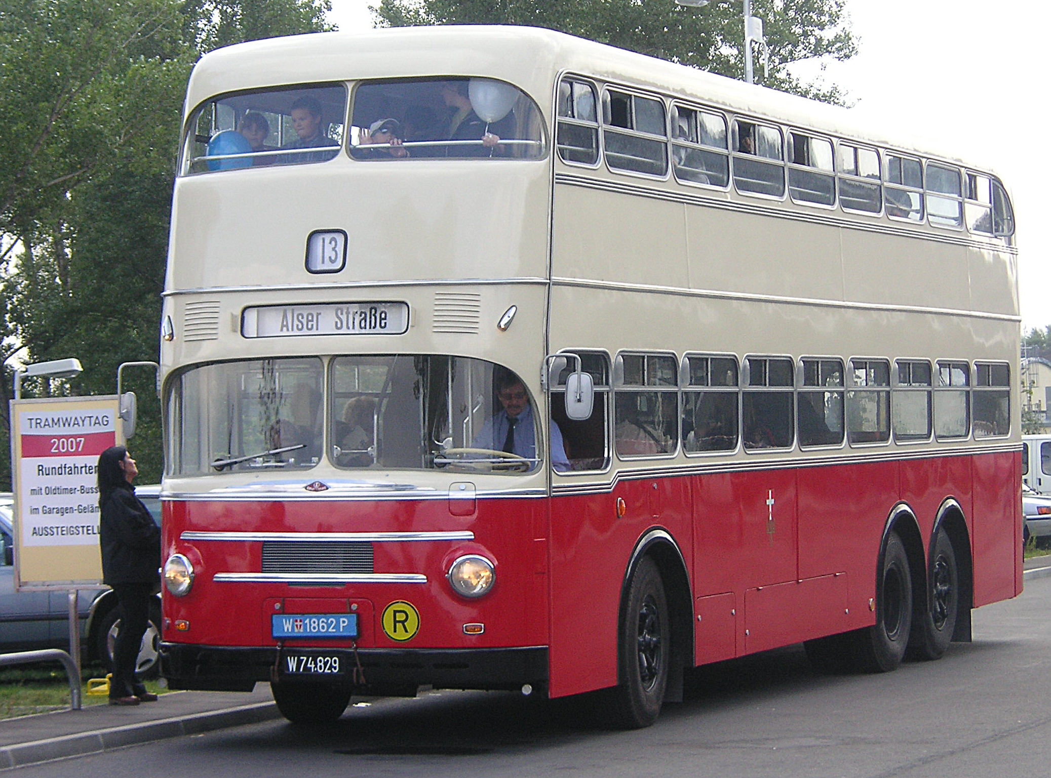 Gräf & Stift double-decker bus DD-2FU (ex-8229 ex-W74.829) introduced in Vienna, Austria in 1961, in service until the mid-1970s. It had a seated conductor towards the rear entrance. ( for information.)